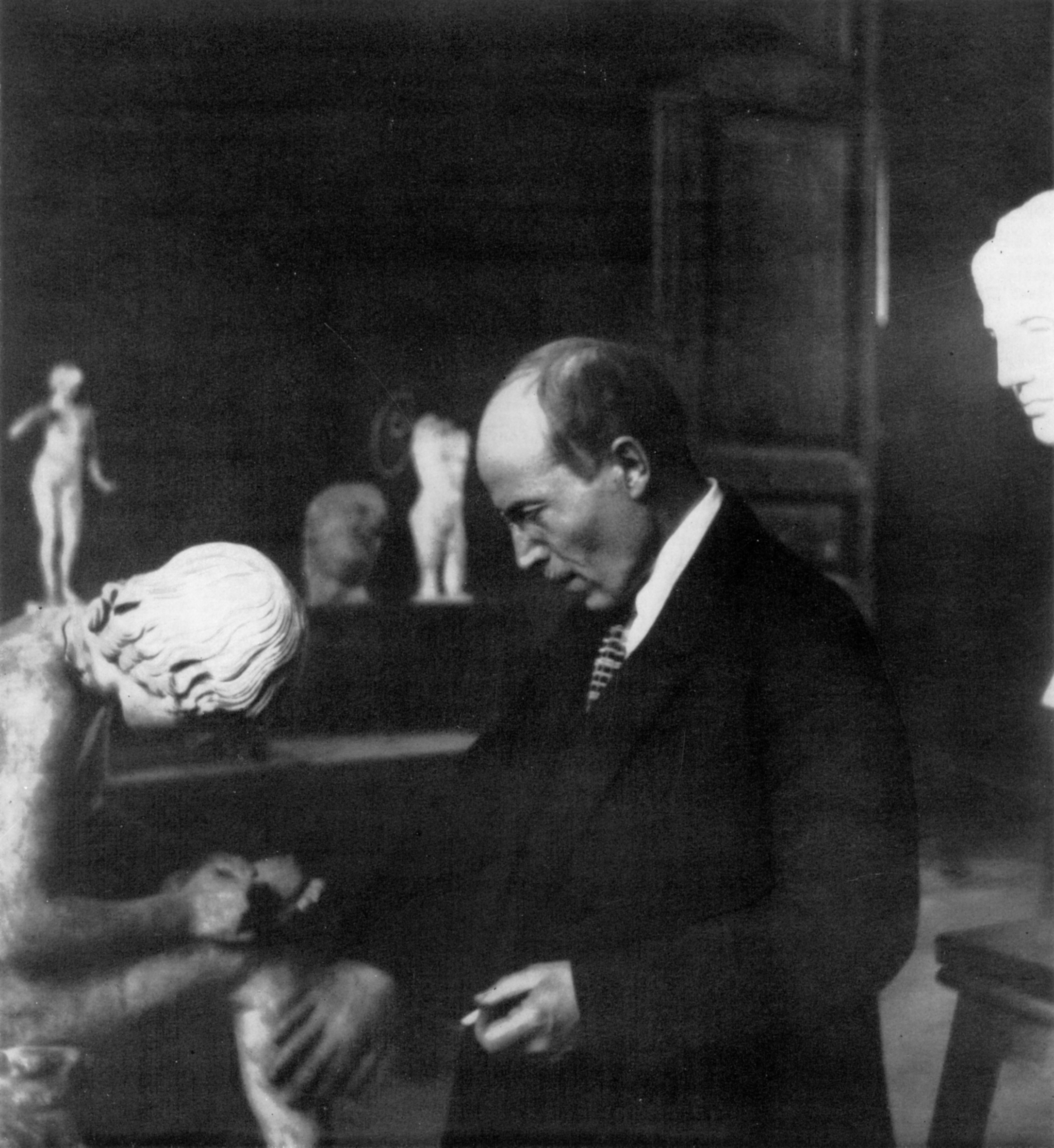 Sculptor Alexandr Matveev. 1920th years